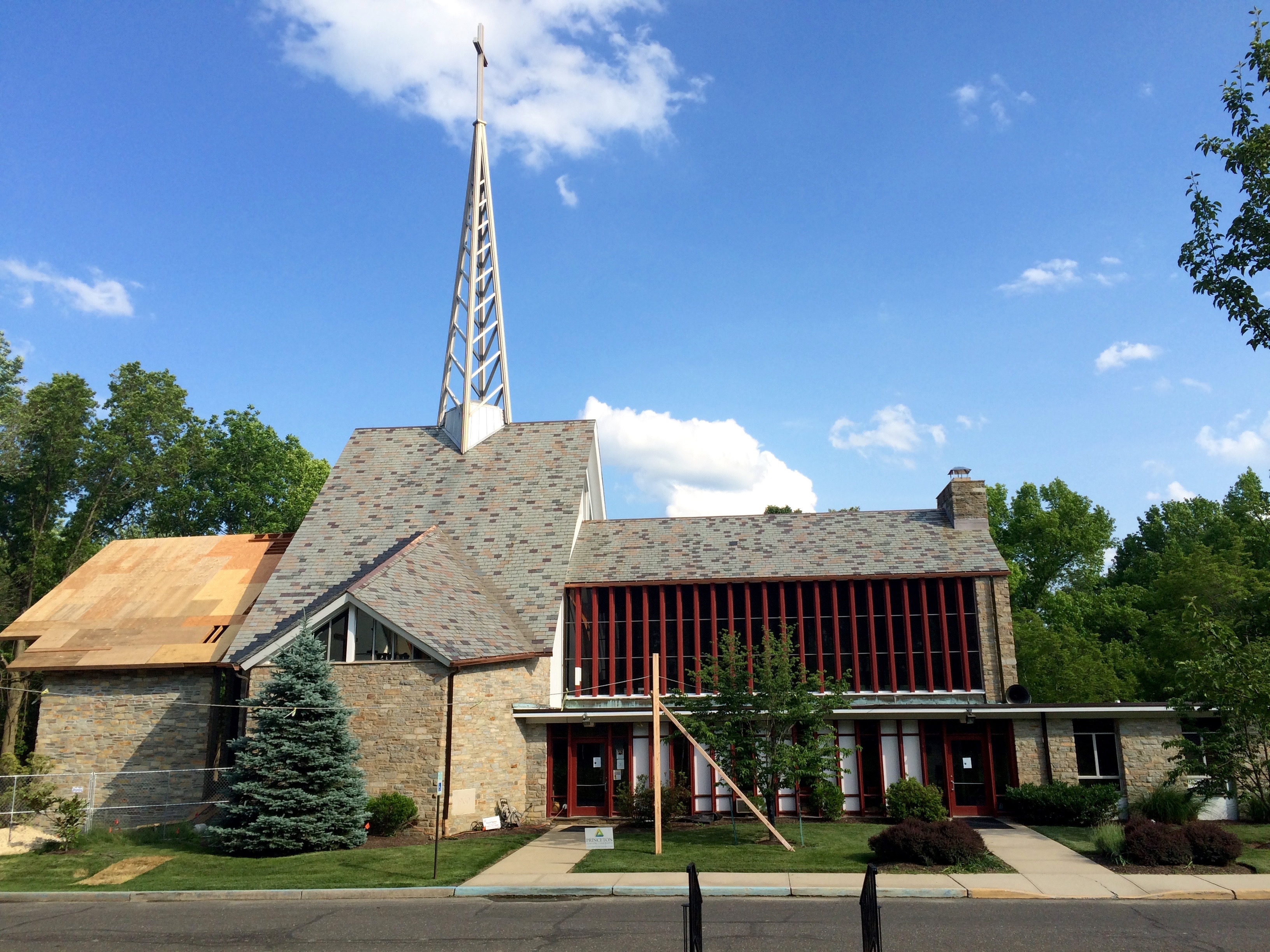 The exterior of All Saints Episcopal Church in Princeton, New Jersey.